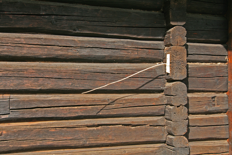 The Weather twig.